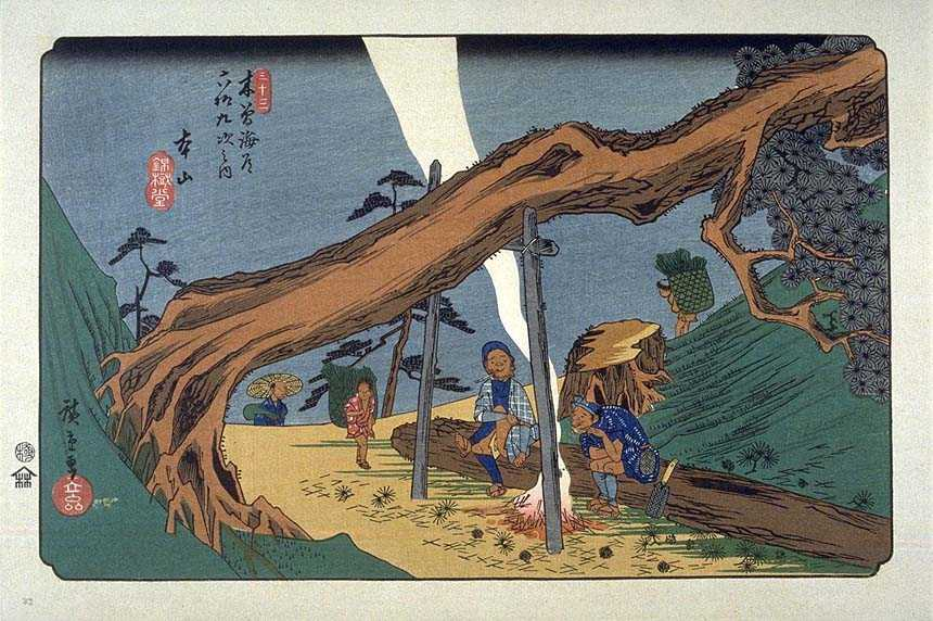 Motoyama on the Kisokaido, ukiyo-e prints by Hiroshige